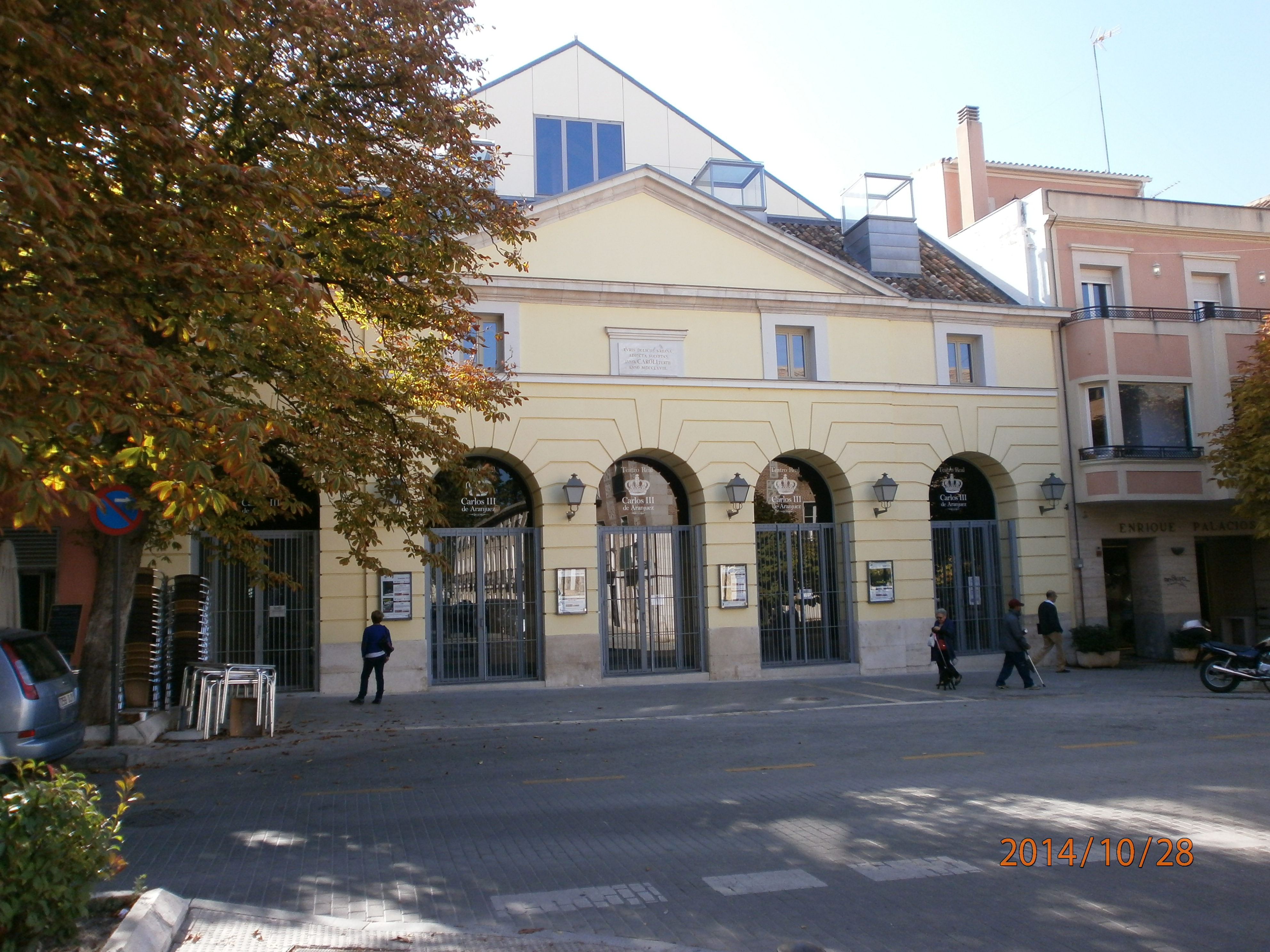 18th century Theater built by Charles III of spain in Calle San Antonio, Aranjuez renovated about 2014